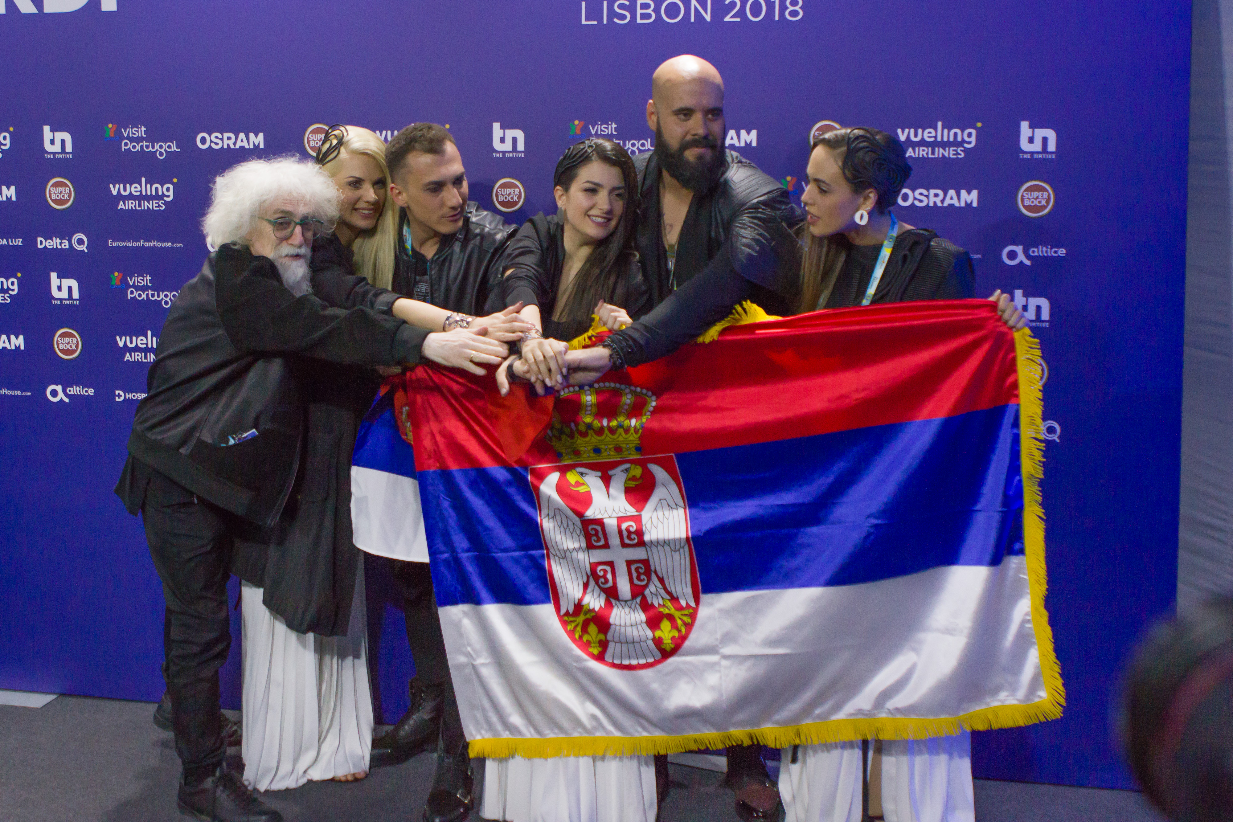 At the 2018 Semi Final 2 qualifiers press conference